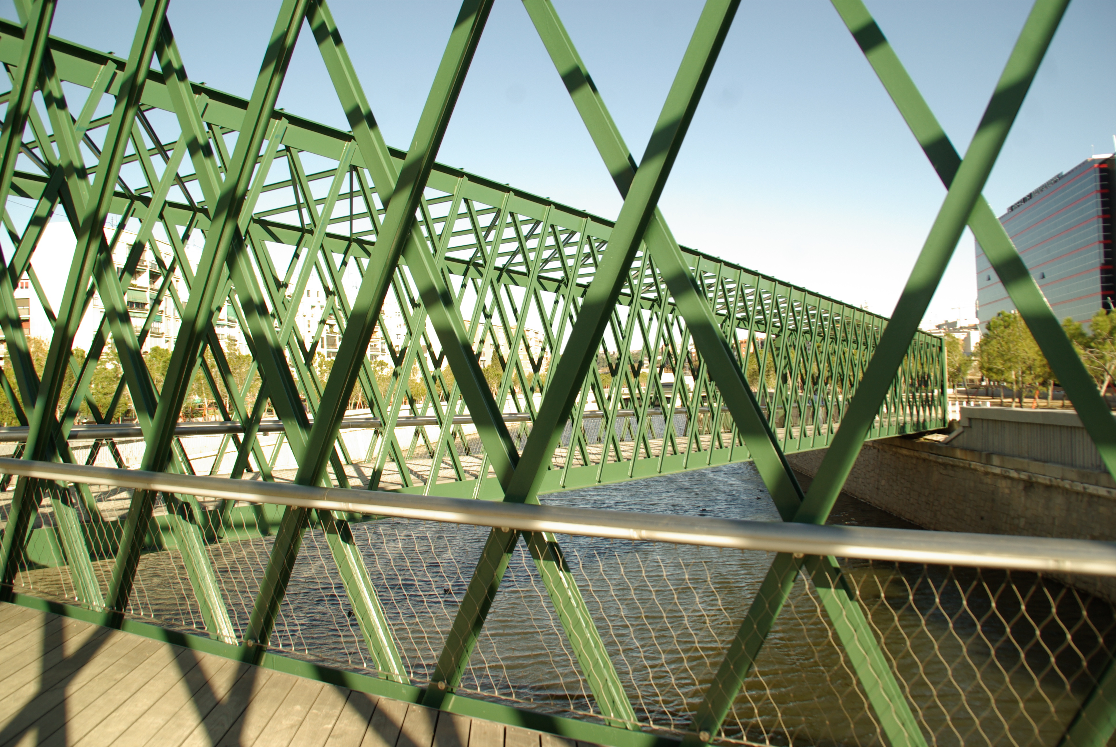 ® MADRID P.L.M. ARGANZUELA PASARELA "YE"